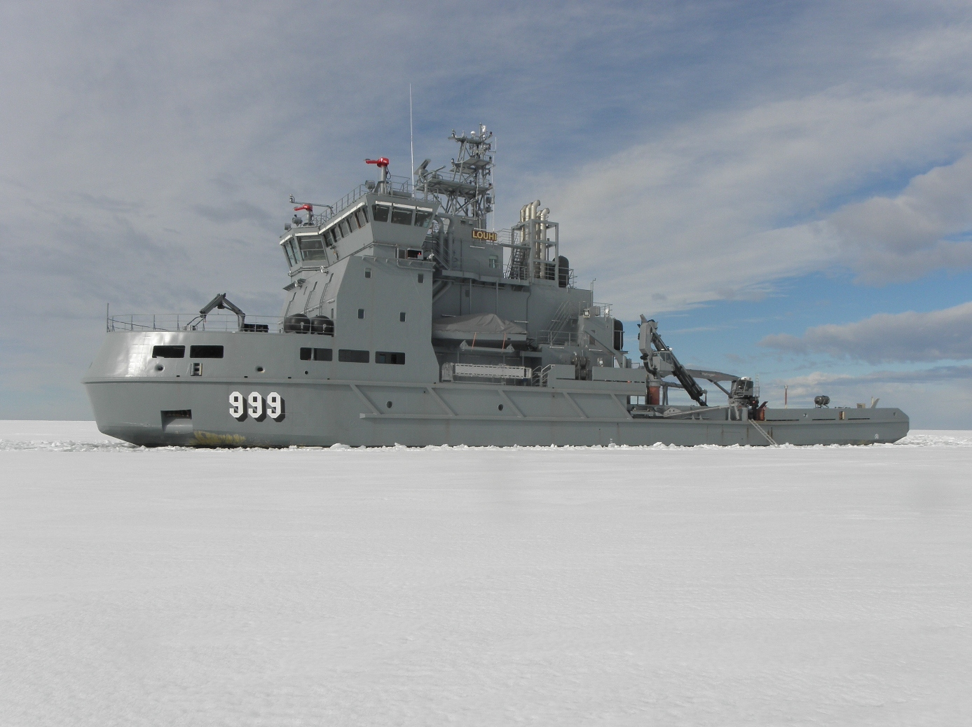 Finnish multipurpose vessel Louhi in ice.